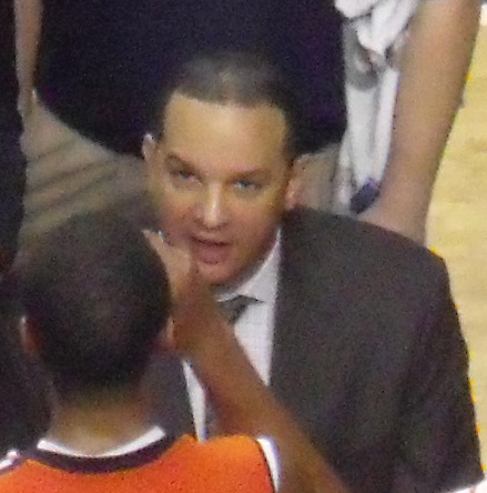 Tony Barbee coaching the Auburn Tigers men's basketball team in 2013 at Rupp Arena in Lexington, Kentucky